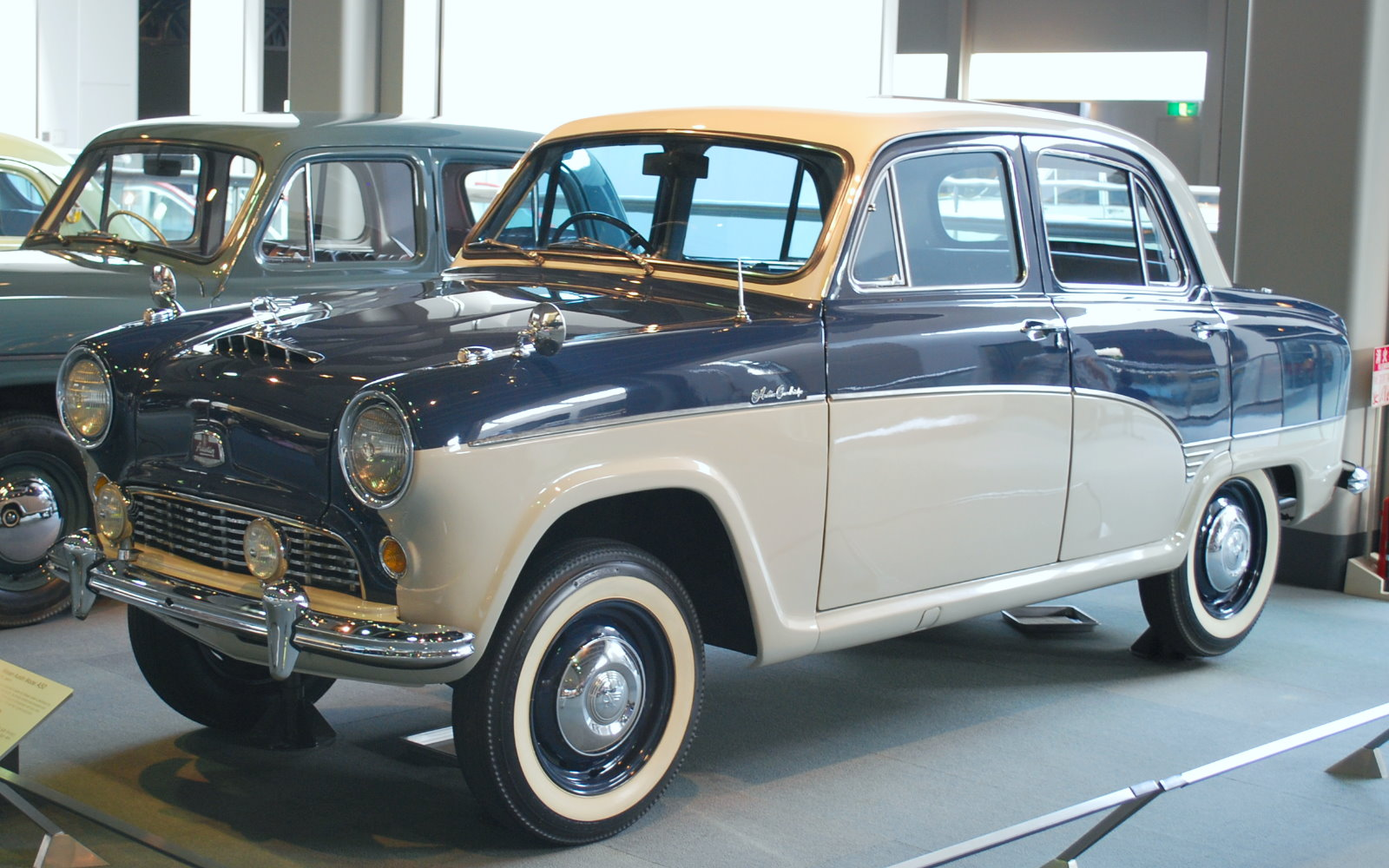 Nissan_Austin Model A50